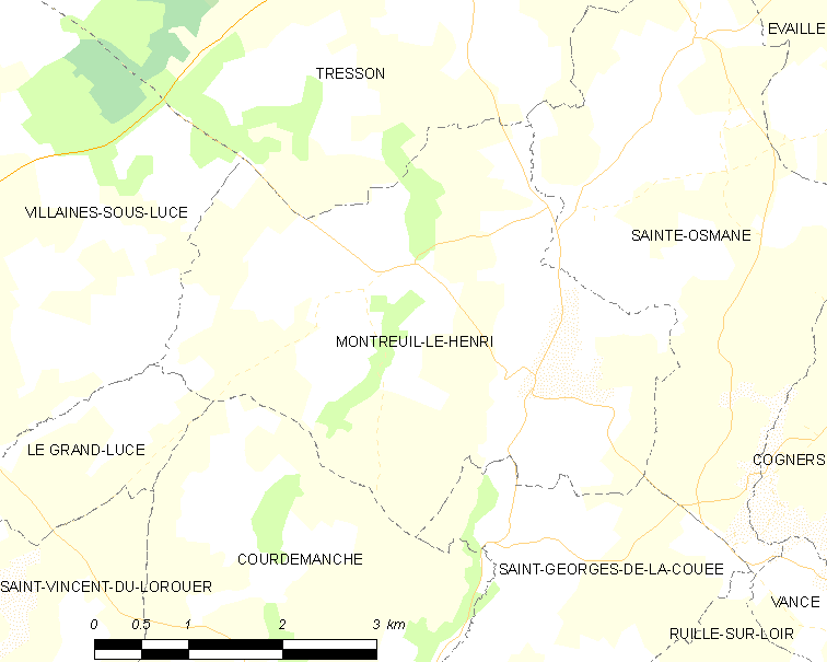 Map of French municipality